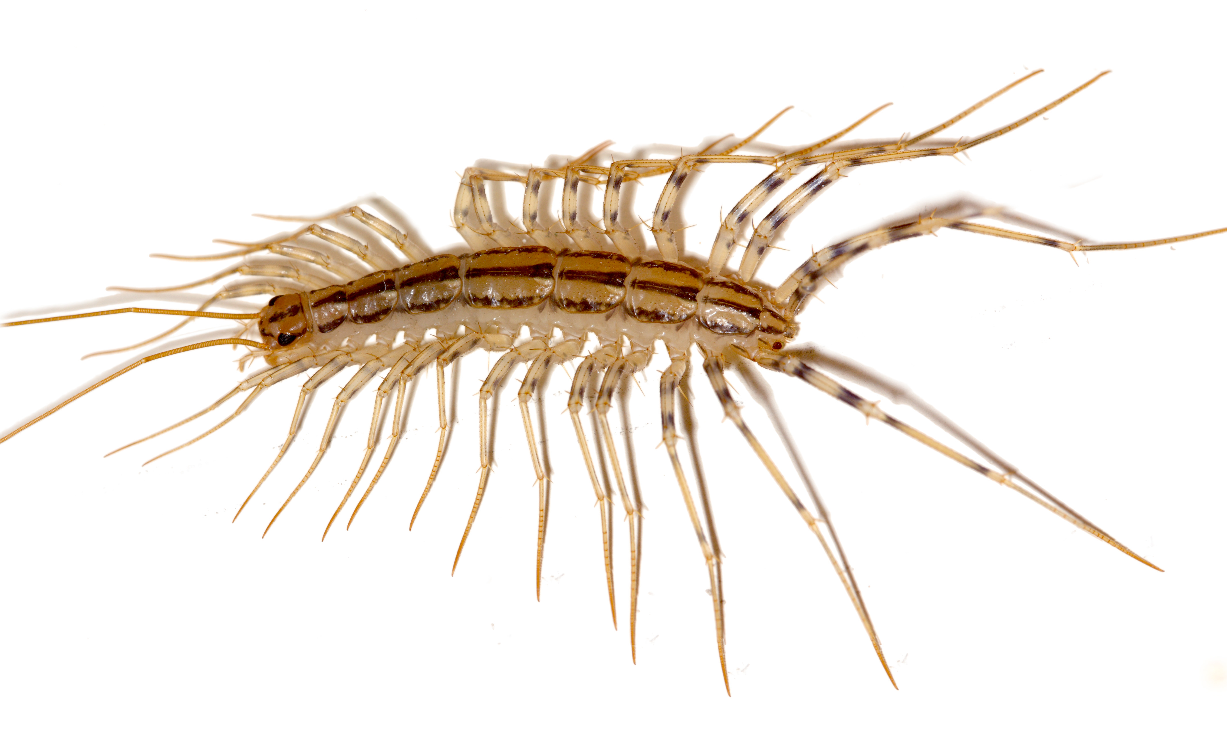 House Centipede, Scutigera coleoptrata